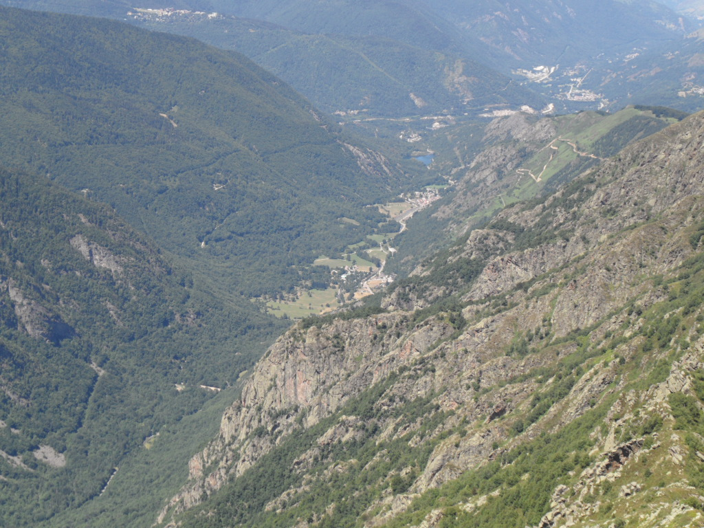 View of the Orlu Valley from the Dent d'Orlu